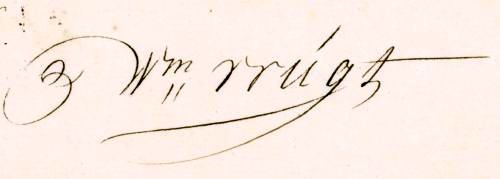 Signature of Willem Vrugt, captainof VOC ship Stadwijk 1756